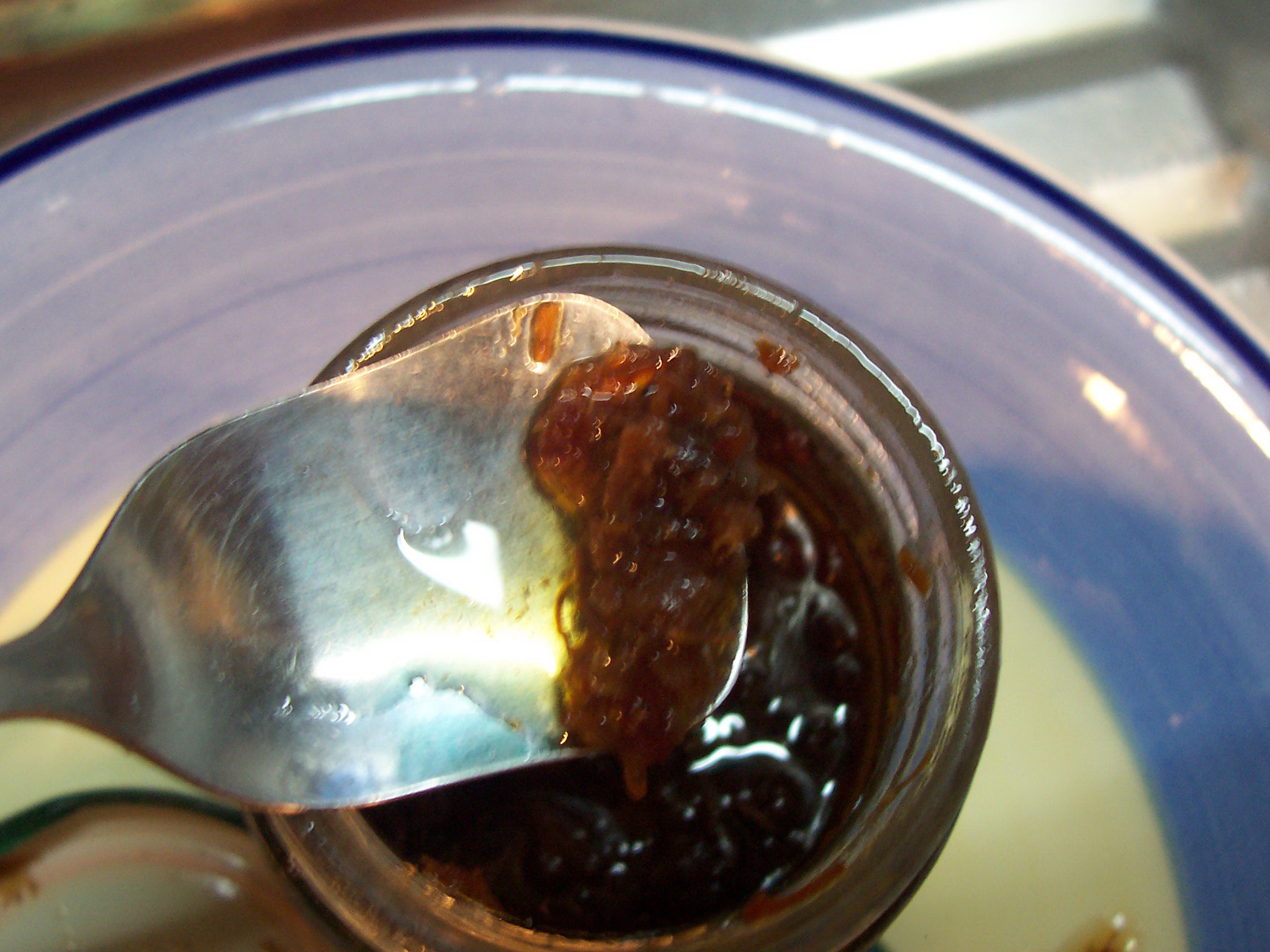 XO sauce. You need just small amount of the sauce to add into the fried rice.